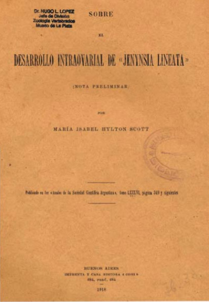 Work by Argentine zoologist and malacologist María Isabel Hylton Scott